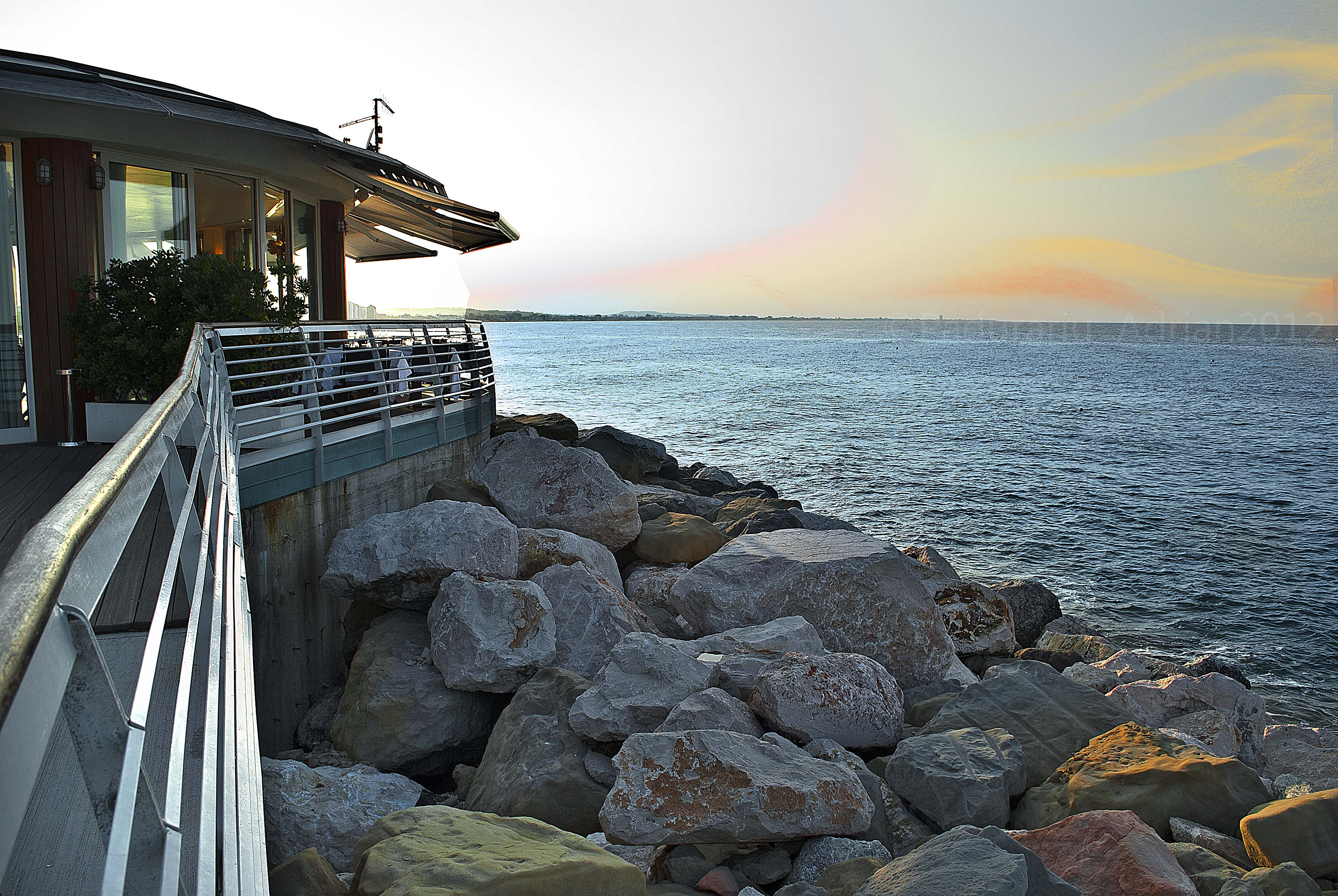 Cattolica-Sunset on Adriatic sea